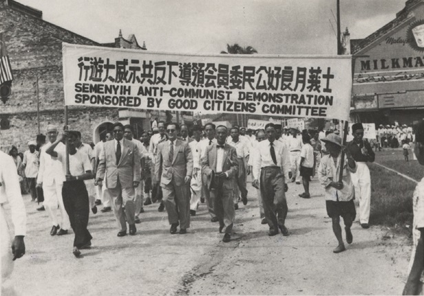 A joint demonstration from Chinese and Malay in Semenyih, Selangor which is partly sponsored by the local "Good Citizens' Committee", opposing the communist activities during the ensuing Malayan Emergency.